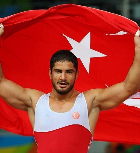 Taha Akgül